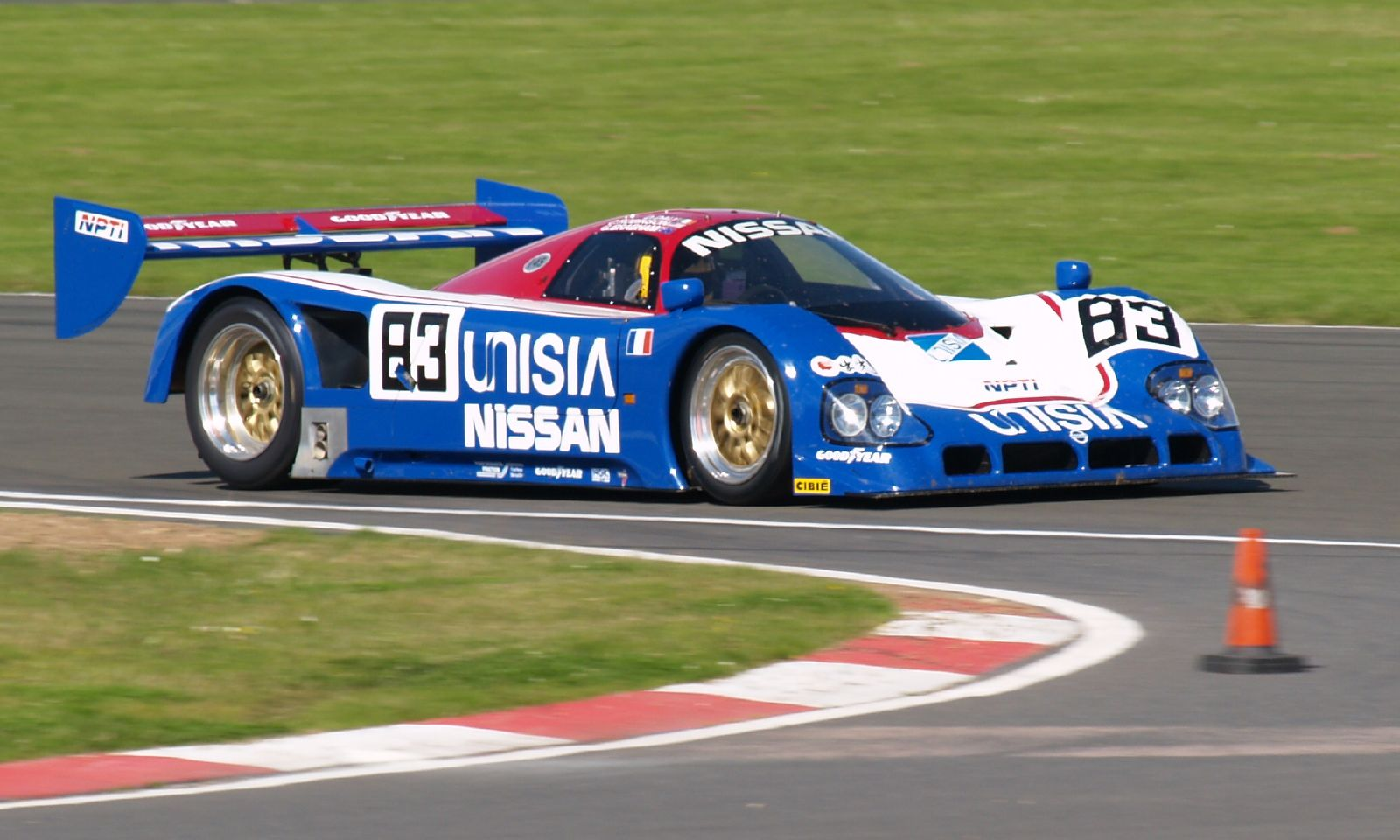 A Nissan R90CK at the Silverstone Classic